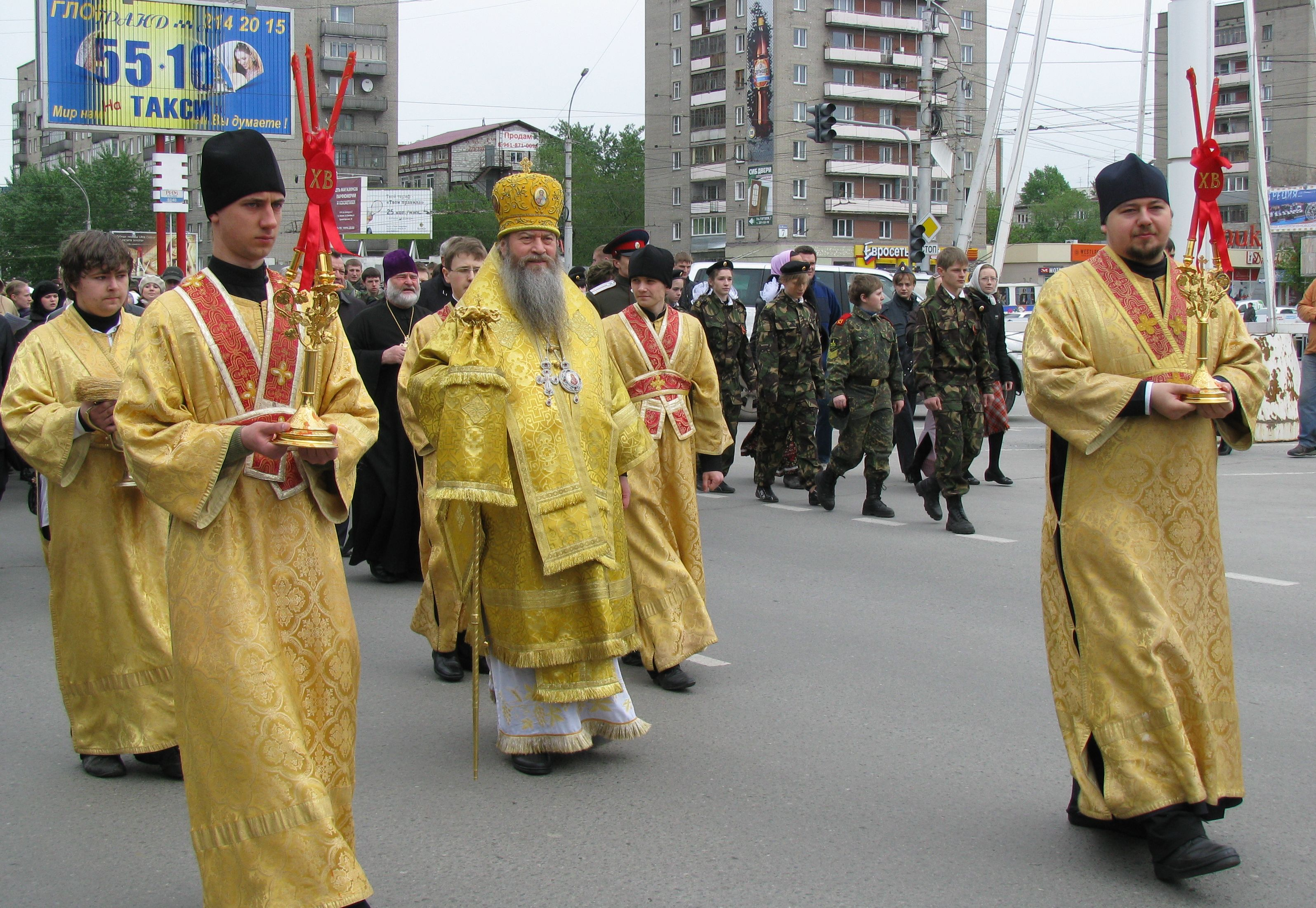 Cross Procession in Novosibirsk